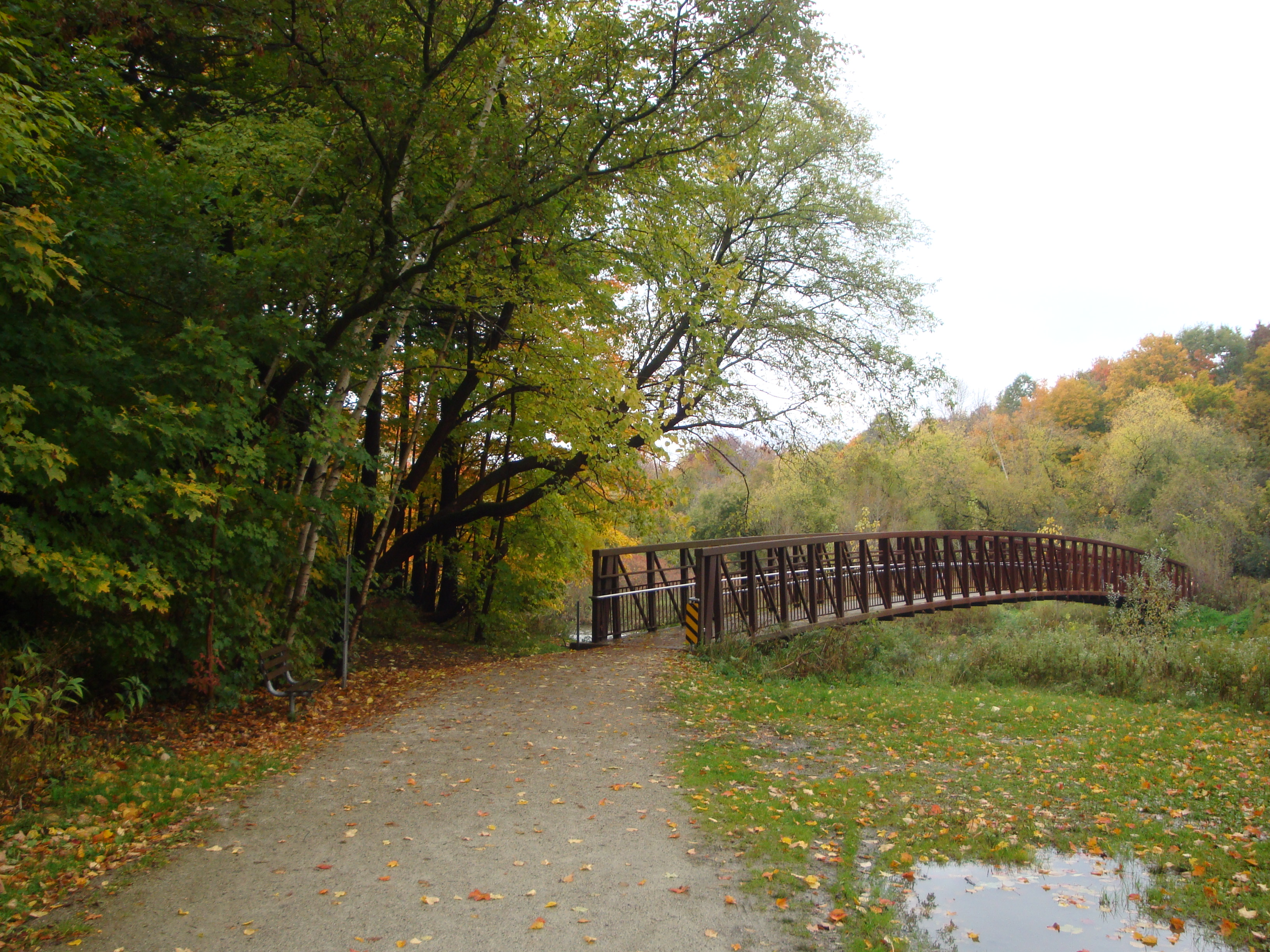 Footbridge along Etobicoke Creek Trail passing over Etobicoke Creek, which marks the border between Toronto and Mississauga (between Lakeshore Road East in the south and Eglinton Avenue East in the north).